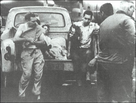 original description: "First evacuees from the massacre at Stanleyville, 24 November"[1]